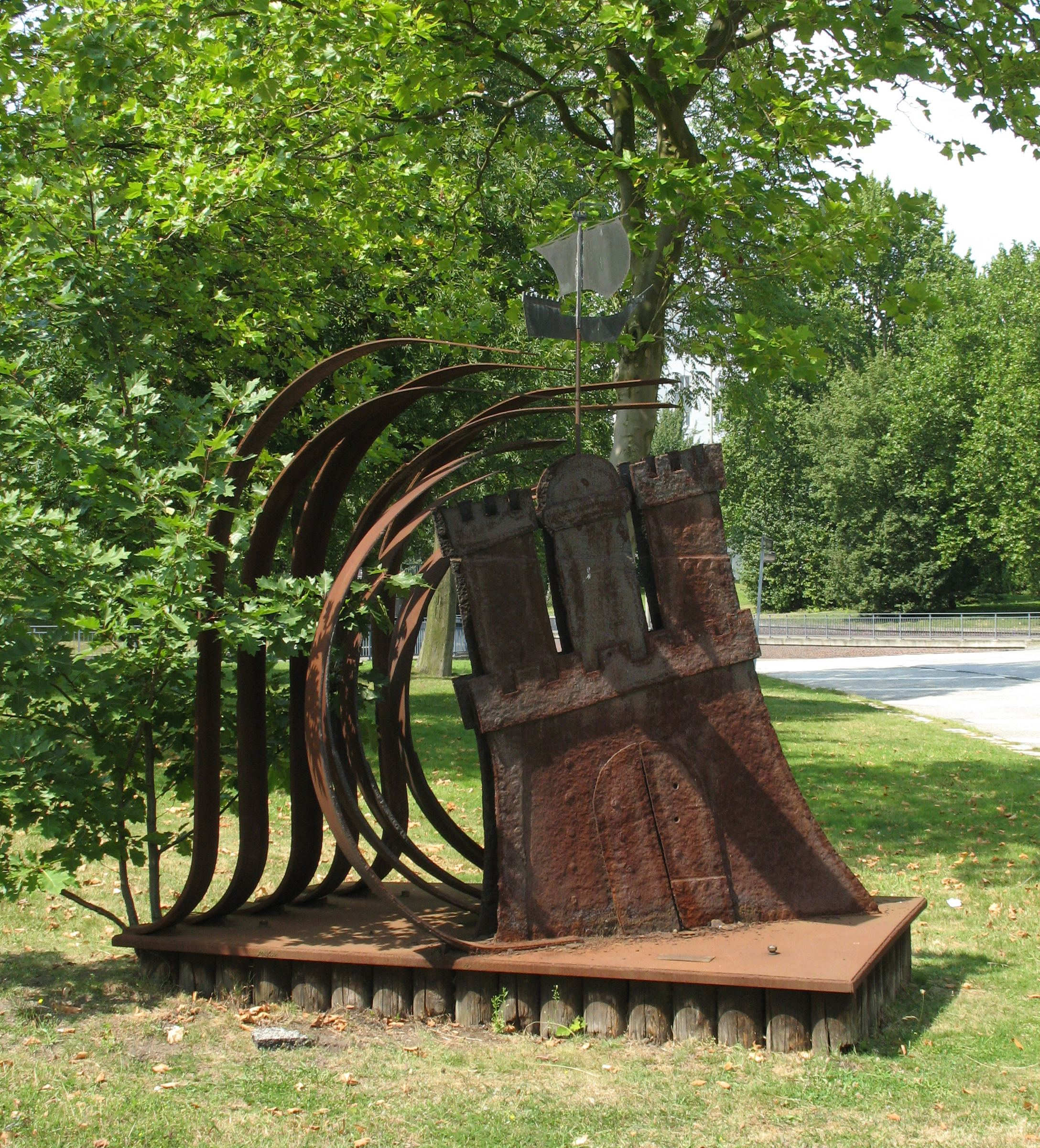 Sculpture in Hamburg-Rothenburgsort, Germany